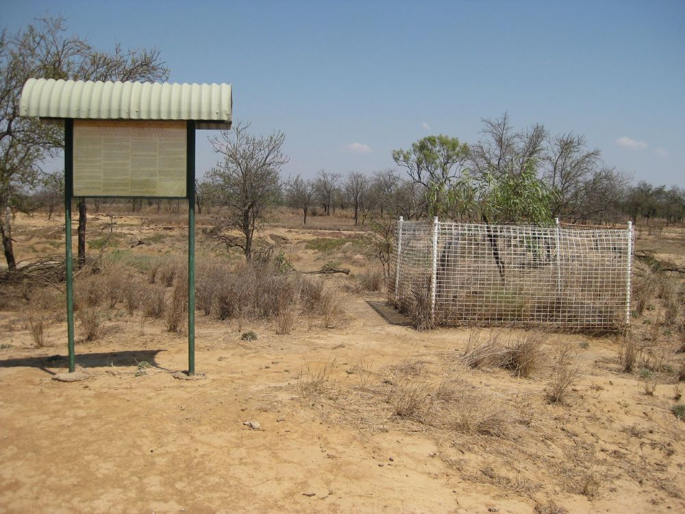 Landsborough Tree from W (2009)